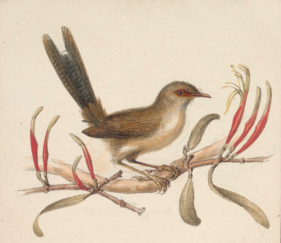 Illustration by Ludwig Becker on Burke and Wills expedition , near mud plains 40 miles from Duroadoo. Full file includes detailed notes on the bird and the illustration